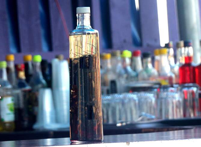 Akpeteshie is Ghana's most popular local drink produced by distilling palm wine or sugar